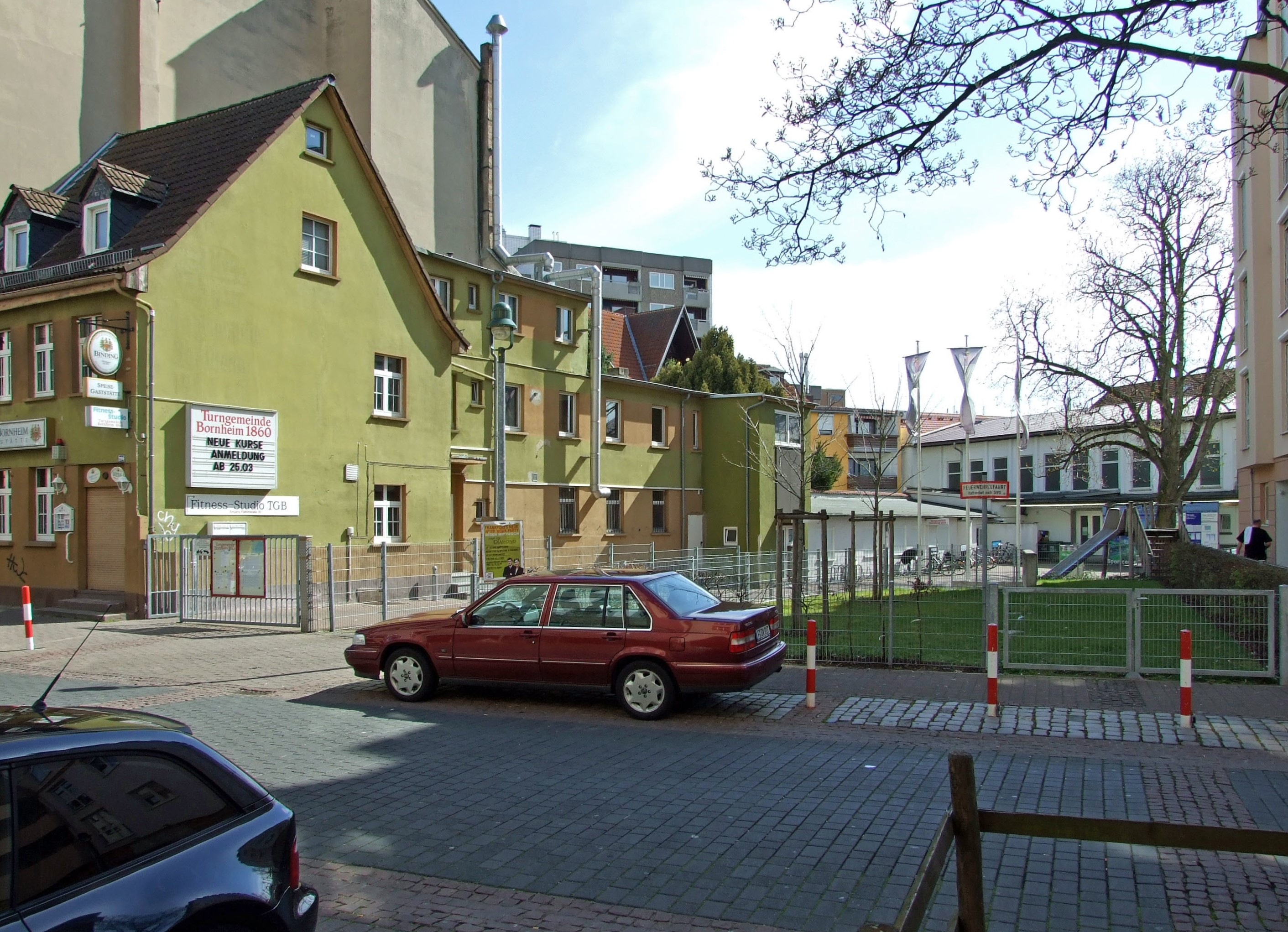 Administration office of the Turngemeinde Bornheim in the Berger Street in Frankfurt am Main-Bornheim